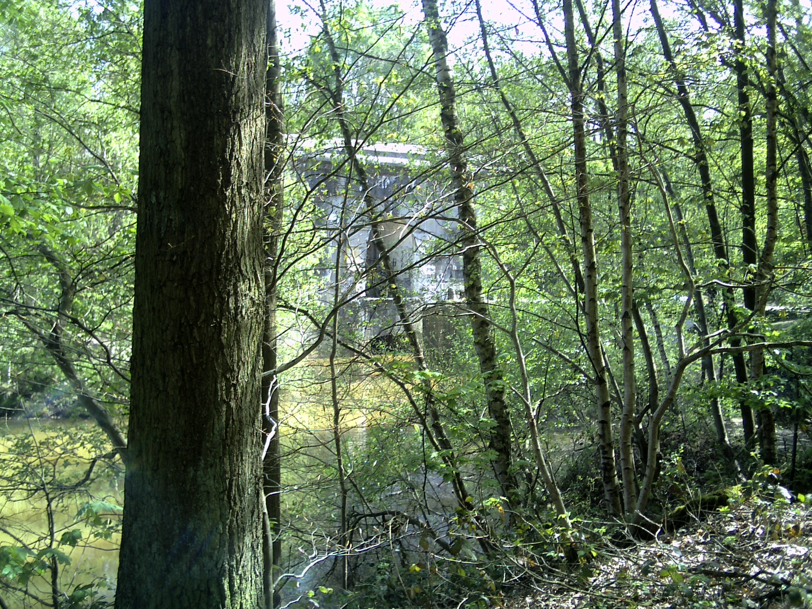 Entrance of fortress of Brasschaat, Brasschaat, Belgium.